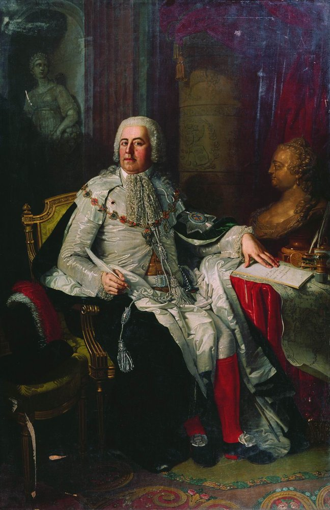 Portrait of Alexander Rumyantsev (1680–1749)